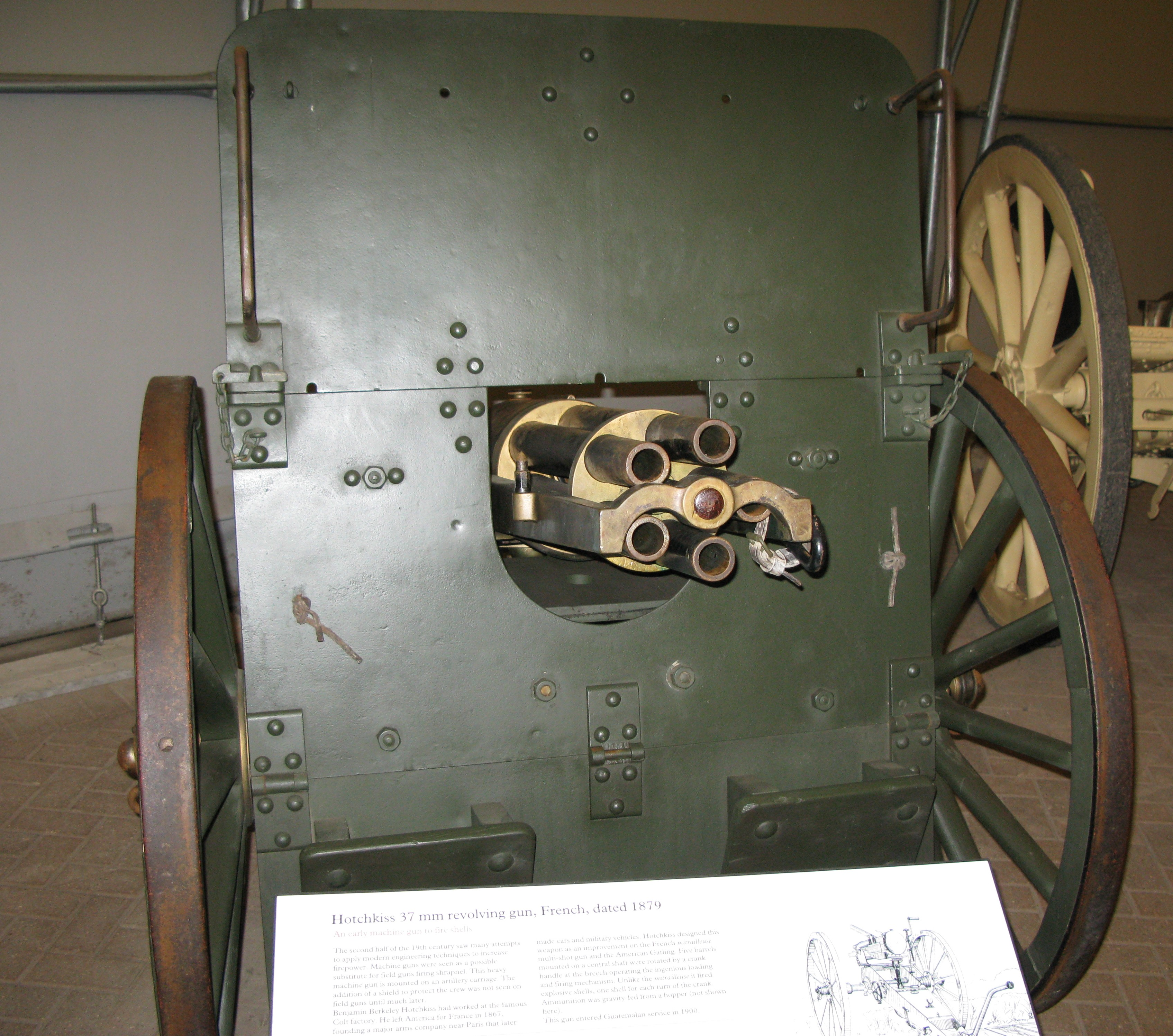 Hotchkiss 37mm revolving cannon at fort nelson dating from 1879